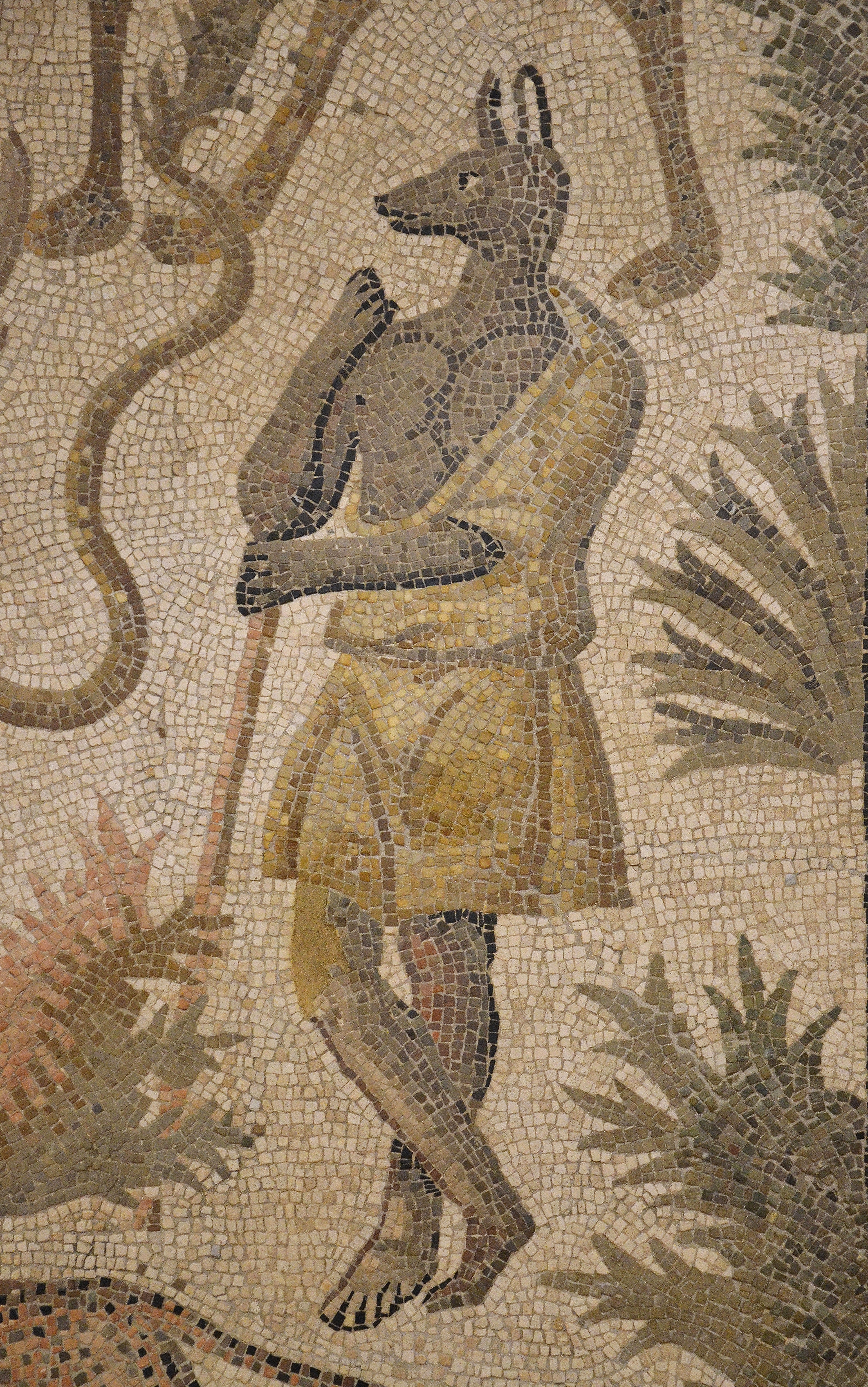 Floor mosaic with Anubis, from a domus in Ariminum (Rimini), end 2nd - early 3rd century, Museo della Città, Rimini, Italy